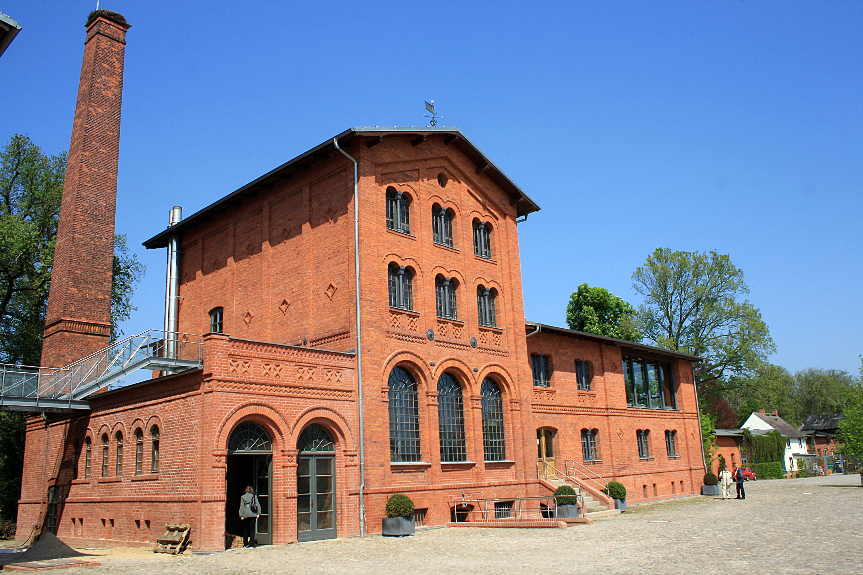 Former distillery on the country estate Groß Behnitz, Brandenburg, Germany